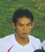 Nguyen Vu Phong in Vietnam football team saluting before the match with Thailand in the second-tier AFF Cup 2008 final, December 28, 2008, at My Dinh National Stadium